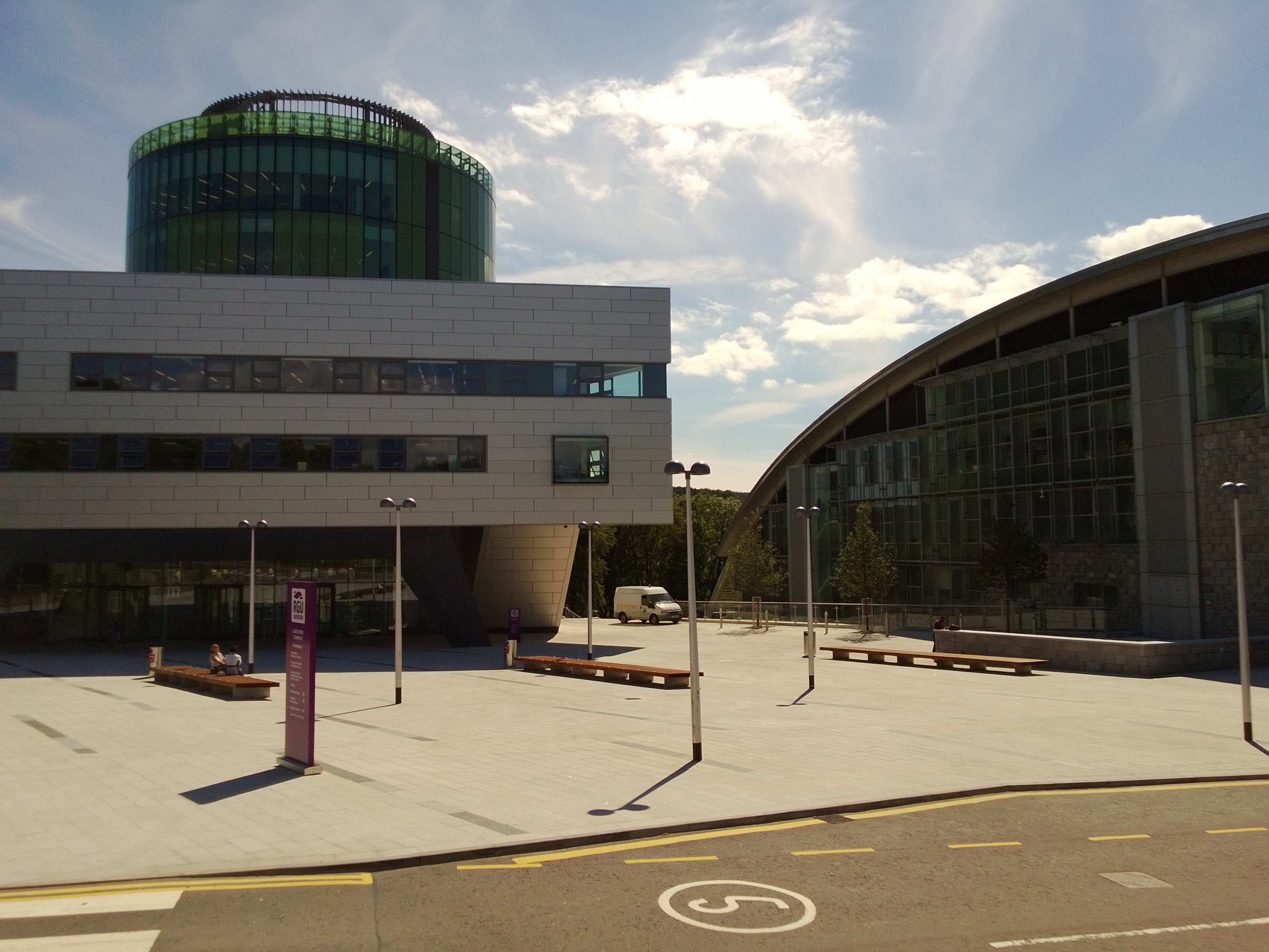 Main plaza at The Robert Gordon University's campus at Garthdee, Aberdeen, UK. Buildings shown are Riverside East (on left) and Faculty of Health and Social Care (on right). Photo taken in August 2013.